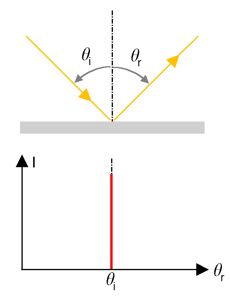 Specular (mirror-like) reflection (without scattering) with the angle of the reflected beam equal to the angle of the incident beam.